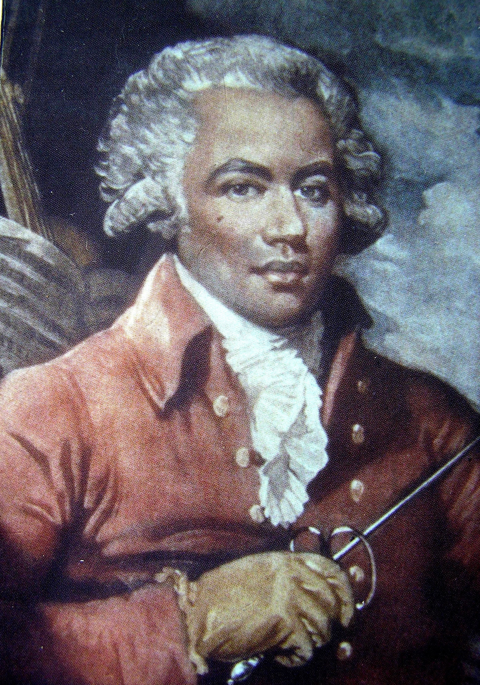 Contemporary Etching of a painting of 1787